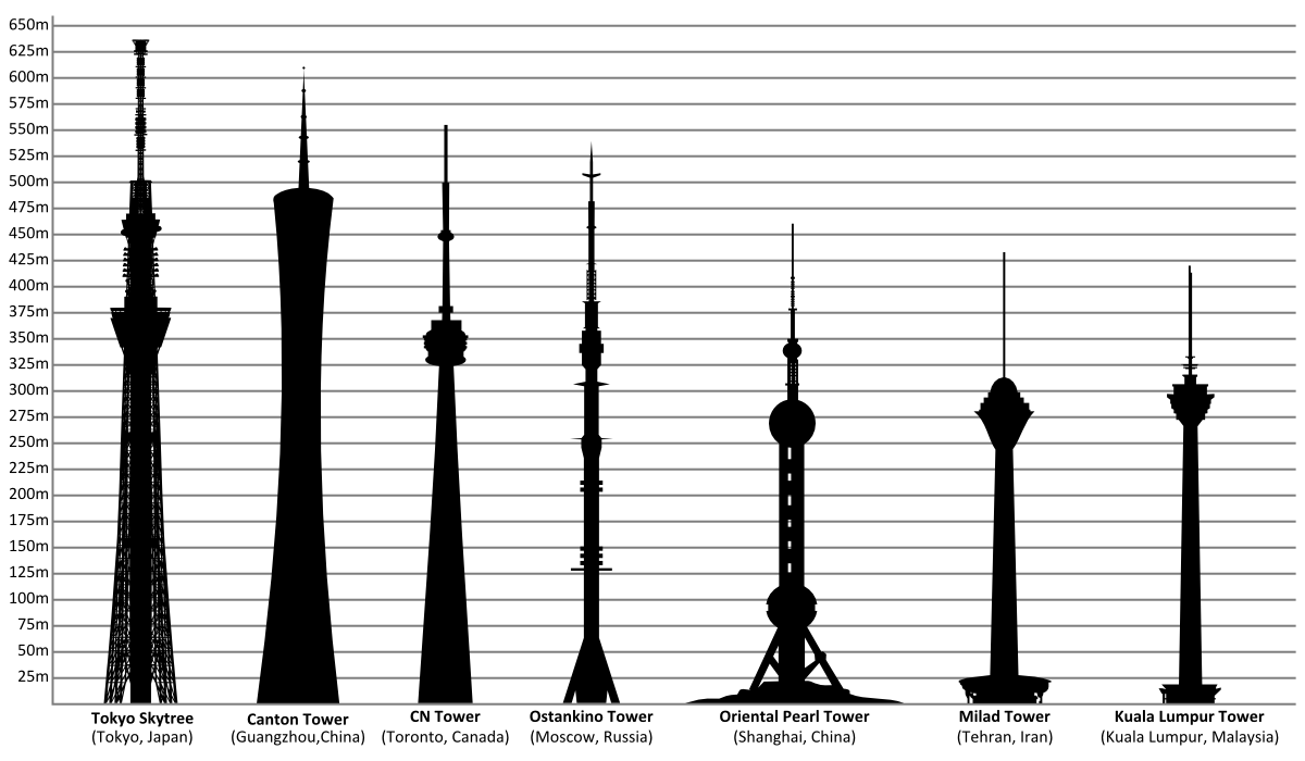 A height diagram of the seven tallest towers in the world